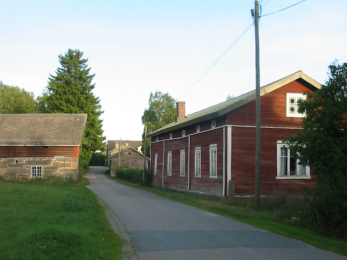 Untamala village in Laitila, Finland Proper, Finland